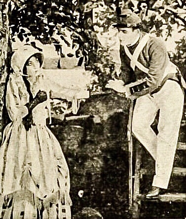 Film still illustrating short story by Henry Albert Phillips providing plot details of the 1912 Edison Studios' New York production For the Cause of the South, published in The Motion Picture Story Magazine, January 1912, p. 105; actors Laura Sawyer and Ben F. Wilson